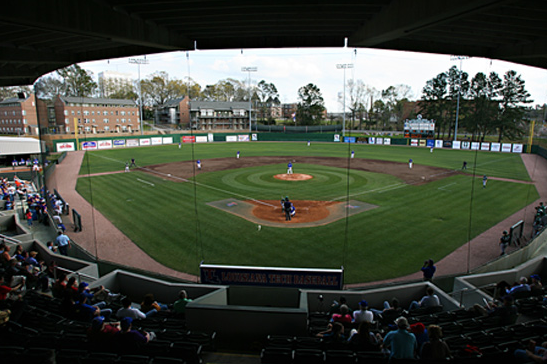 J.C. Love Field at Pat Patterson Park, Louisiana Tech University's baseball field